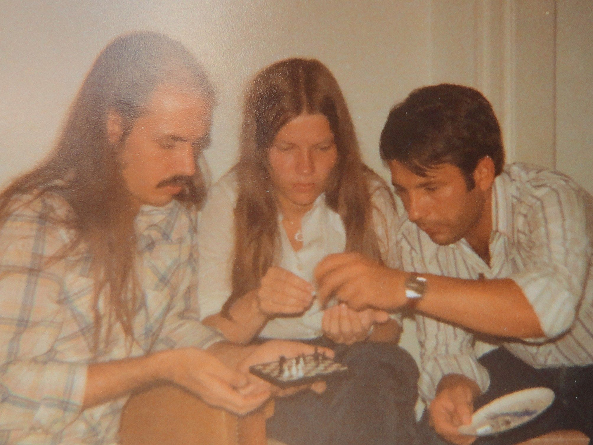 Slobodan Martinovic (right), Interzonal Tournaments 1979 in Rio de Janeiro (analyzing a chess game).